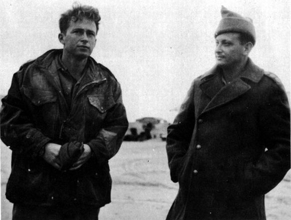 Yitzhak Rabin with Yigal Allon, the southern front commander, during the War od Independence. For more from the IDF